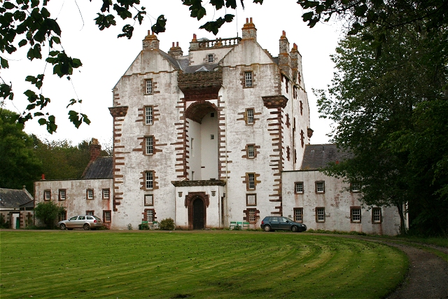 Craigston Castle